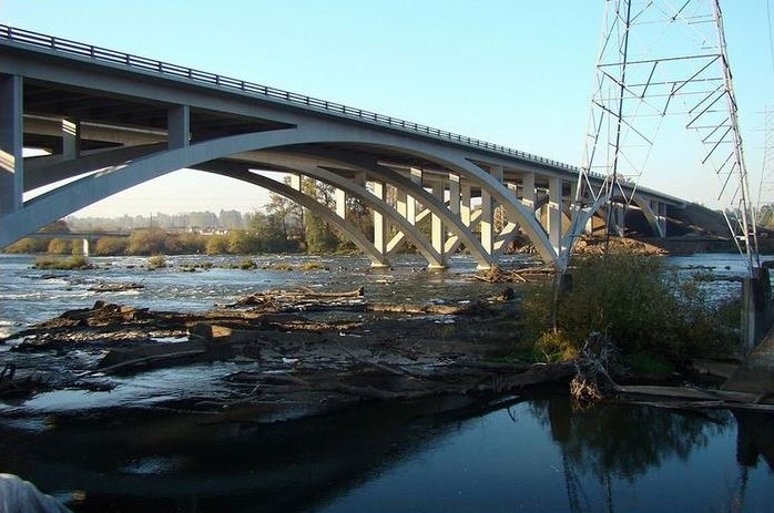 Whilamut Passage Bridge over the Willamette River at Eugene, Oregon